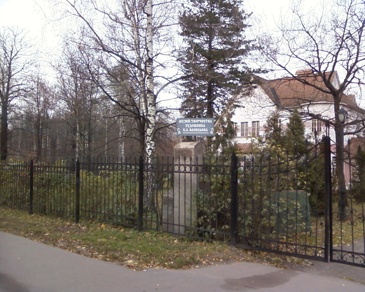 Konstantin Vasilyev Museum, Moscow.